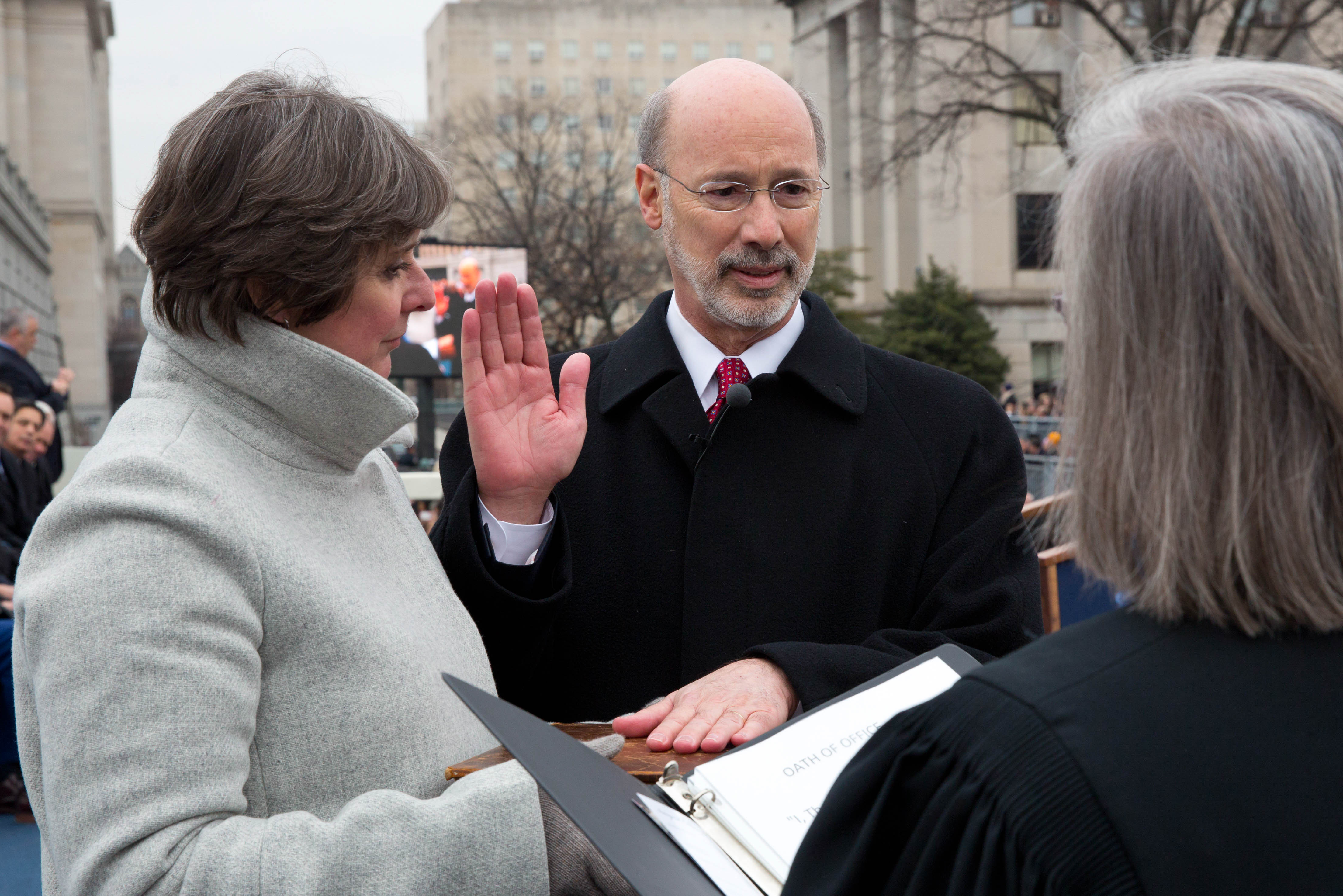 Pennsylvania Governor Tom Wolf takes the oath of office, while First Lady Frances Wolf holds the Bible for the swearing in.